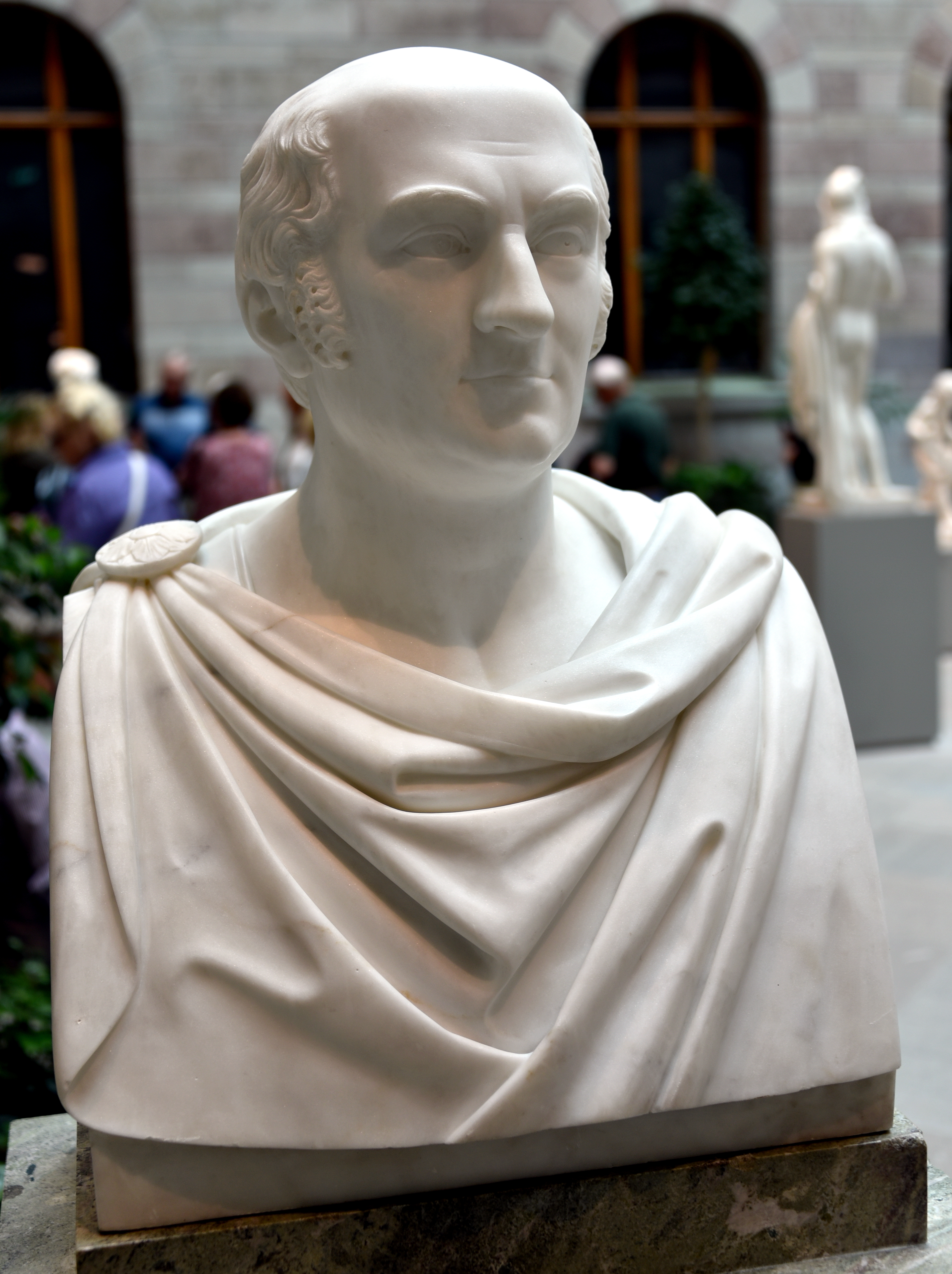 Carl Johan Adlercreutz, Count, Officer, and Statesman, by Johan Niklas Byström (1783-1848). Marble. Nationalmuseum, Stockholm, Sweden. Bequest 1883 Colonel Carl Gustav Adlercreutz. NMSk 748.